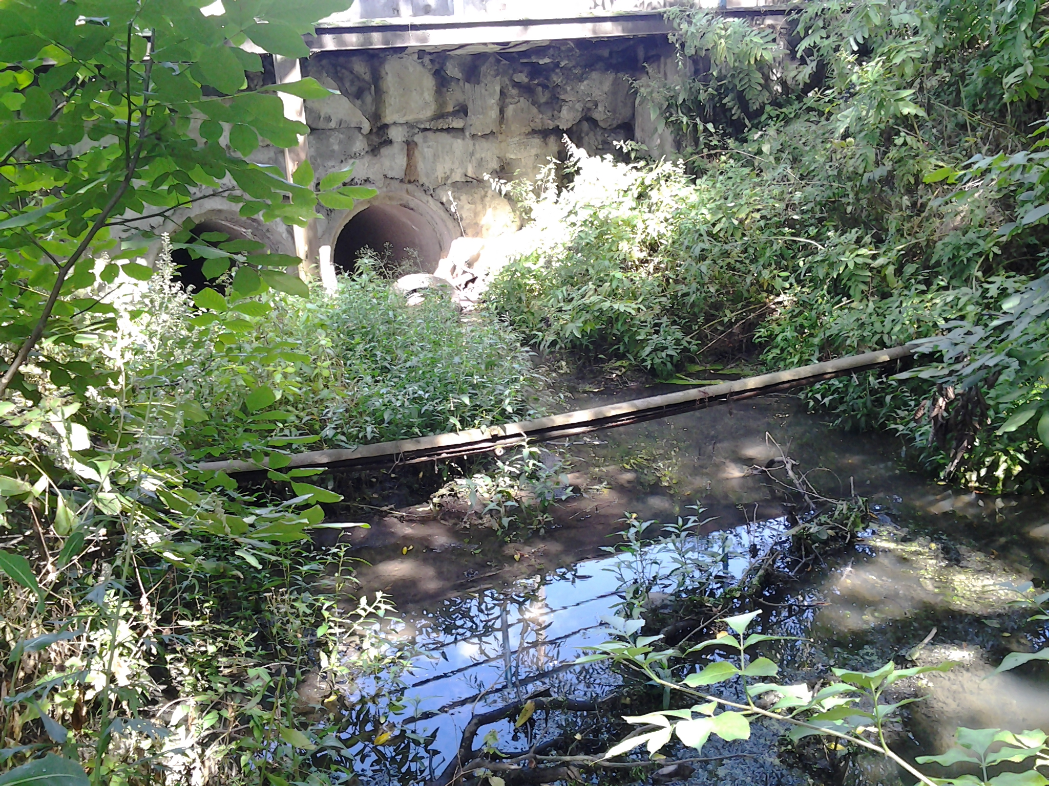 River_Zhyduvka_in_Lutsk_2016_(3)